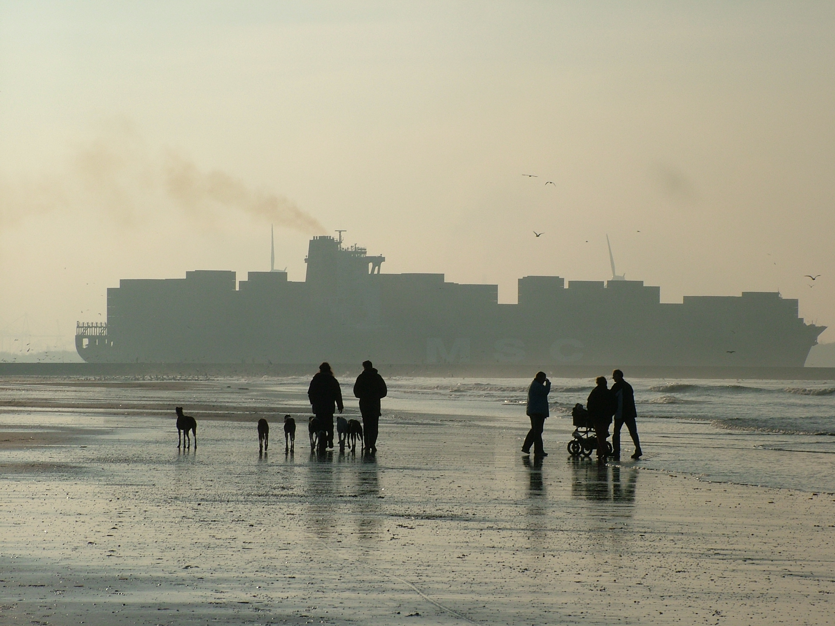 Beach of Hoek van Holland